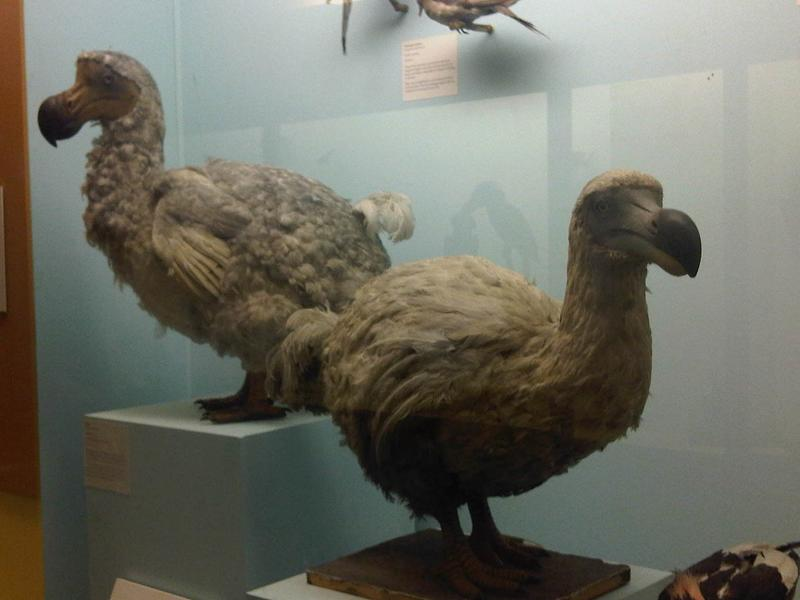 A Dodo (Raphus cucullatus) - on the left - reconstructions and a Réunion Island dodo (Raphus solitarius - invalid taxon) - on the right - model at the Natural History Museum in London, England. The Réunion Island dodo was a scientific mystery for centuries. Seventeenth-century paintings based on travellers' tales showed a white bird from Réunion Island that many assumed was a relative of the dodo, which lived on neighbouring Mauritius. Based on recent fossil discoveries, scientists have now realised that the accounts actually recorded the now extinct Réunion Island ibis (Threskiornis solitarius) - a long-necked, largely white bird, similar to the sacred ibis (Threskiornis aethiopicus). Hence, the reconstructed creature on this picture is actually a model of a bird that never existed, based on the misinterpretation of one that did.